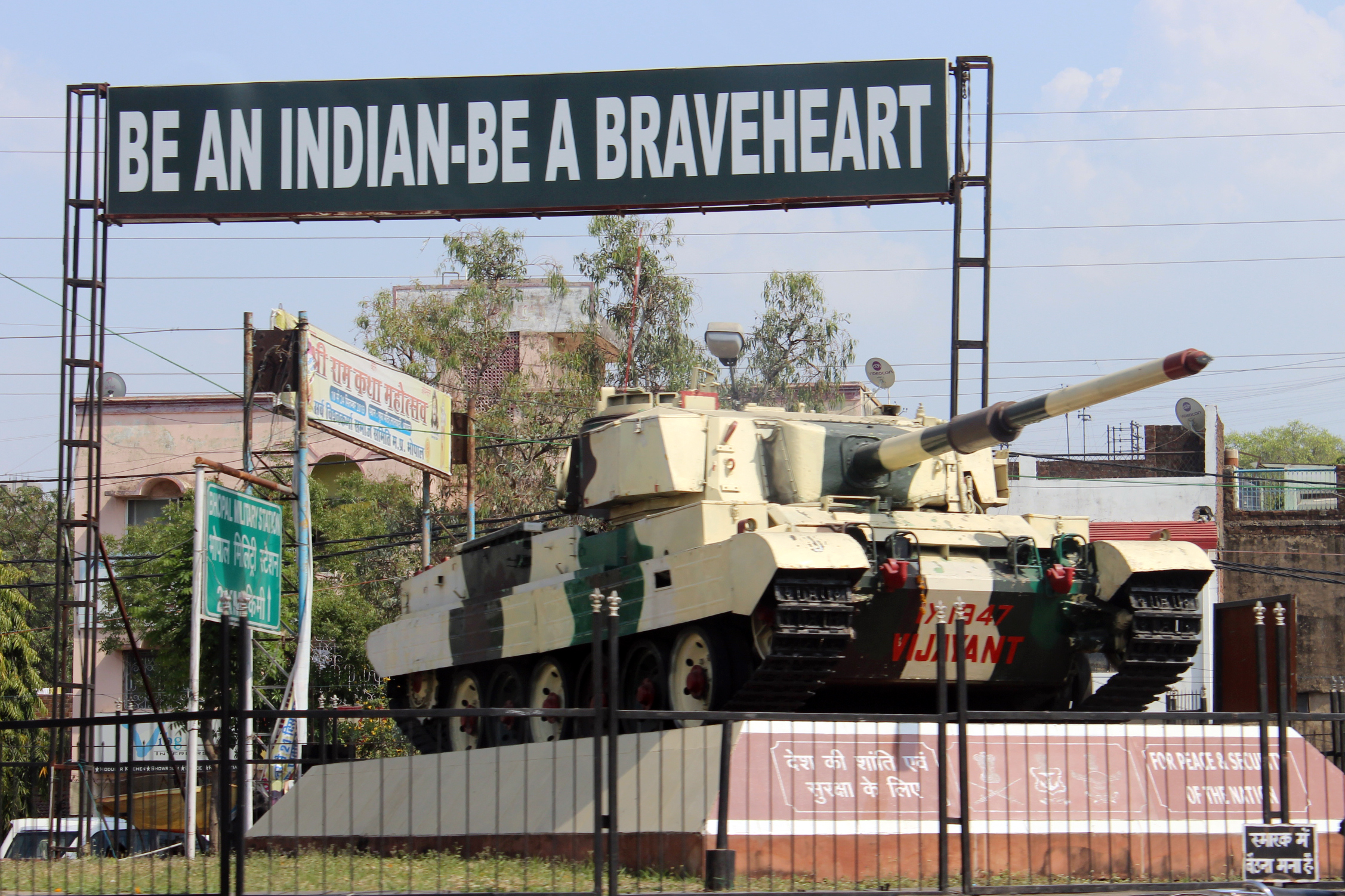 Vijyant Tank at Lal-Ghati Square Bhopal